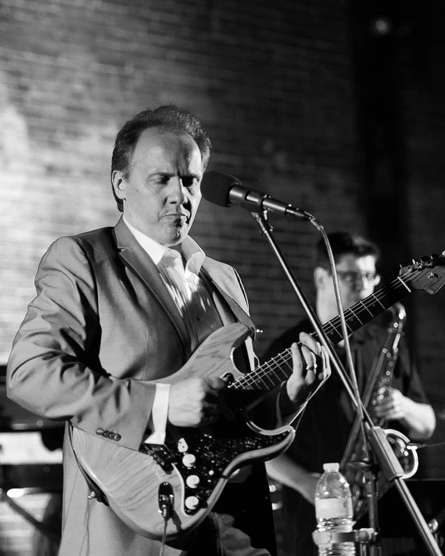 Slau Halatyn, lead singer of The Blue Turtles, performing with the band at The Charles A. Brown Ice House in Bethlehem, Pennsylvania at their first public concert June 20, 2014.